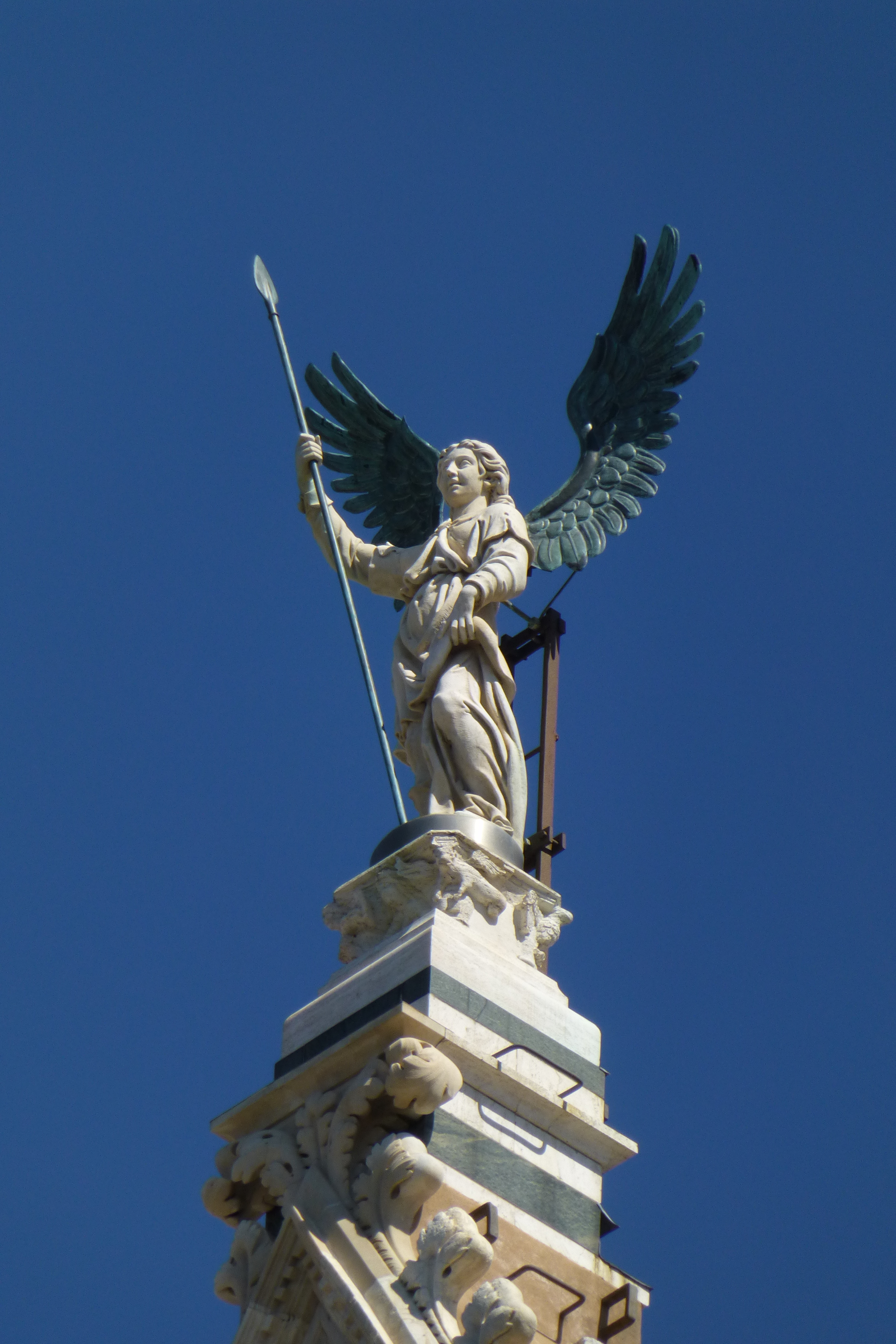 Siena Cathedral (Italian: Duomo di Siena) is a medieval church in Siena, Italy, dedicated from its earliest days as a Roman Catholic Marian church, and now dedicated to Santa Maria Assunta (Holy Mary, Our Lady of the Assumption).